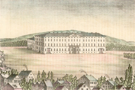 Depicted place: Royal Palace, Oslo